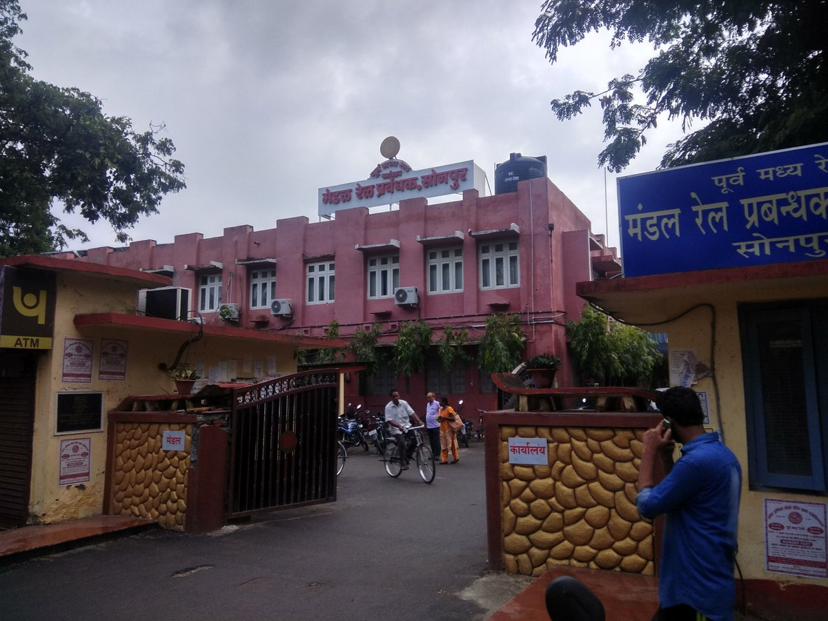 Sonpurraildivison